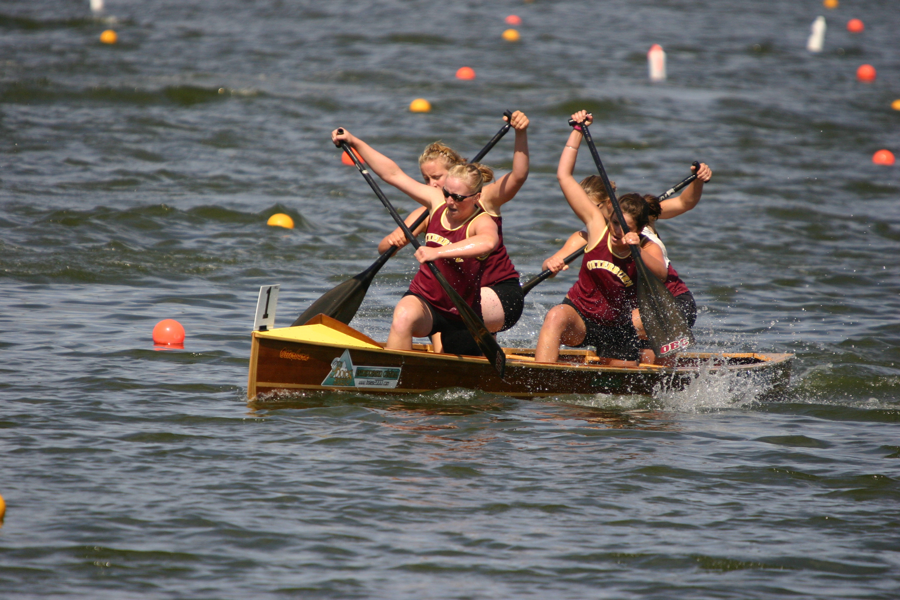 Sprint canoeing, canadian c-4. Team of the Boating Club de Canotage Otterburn, of Otterburn Park, Quebec